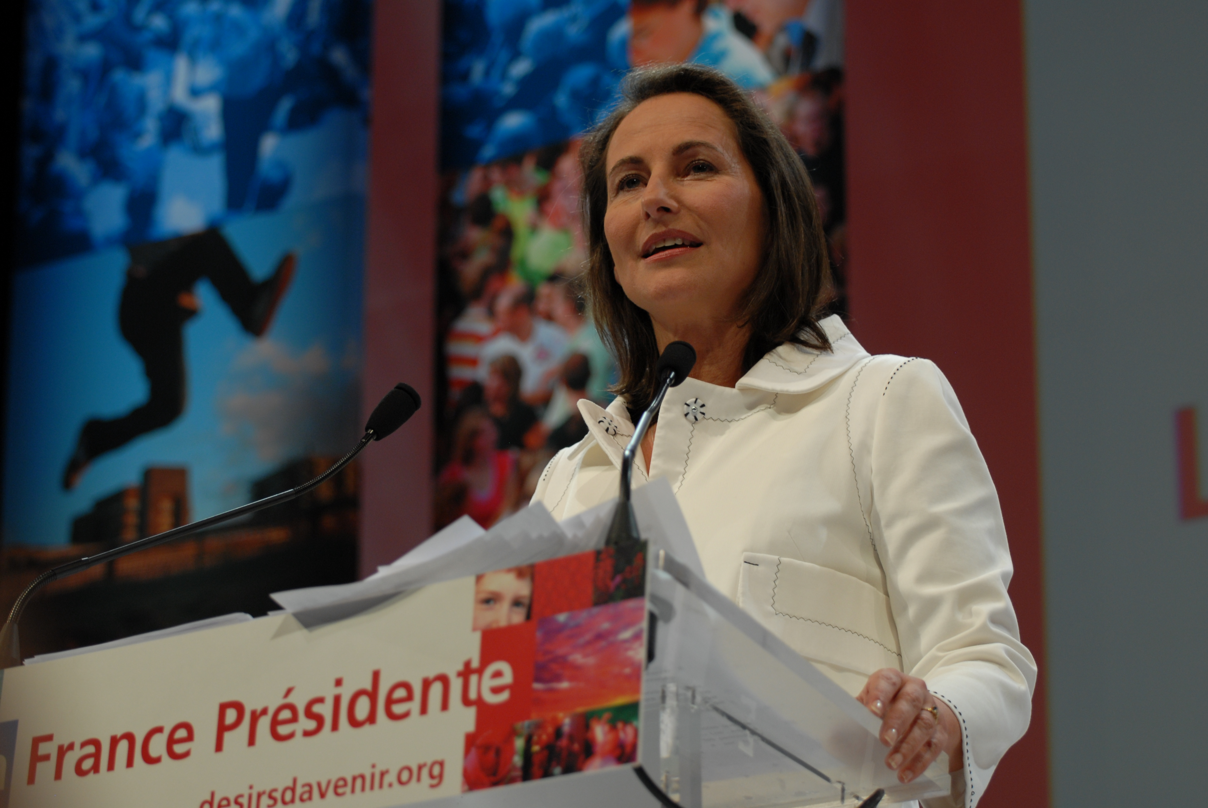 Ségolène Royal during her meeting in Toulouse on April, 19th 2007 for the 2007 presidential election.